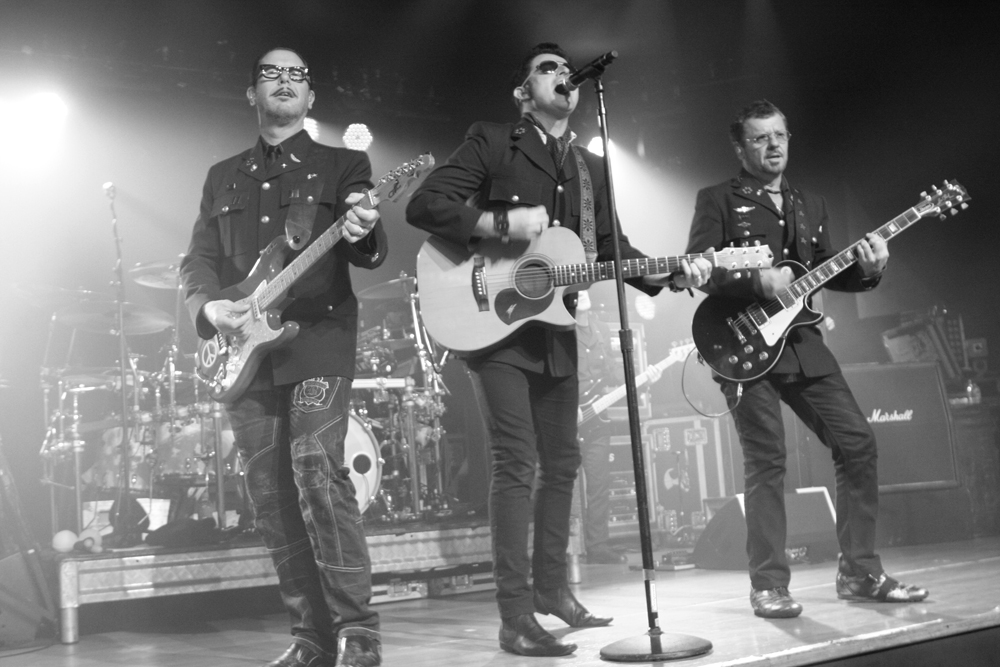 INXS performs at Campbelltown RSL Club, Sydney